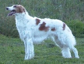 from